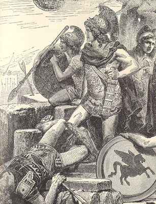 "Siege of Tyre," from John Williams, The Life of Alexander the Great (New York: Perkins, 1902) p. 122.